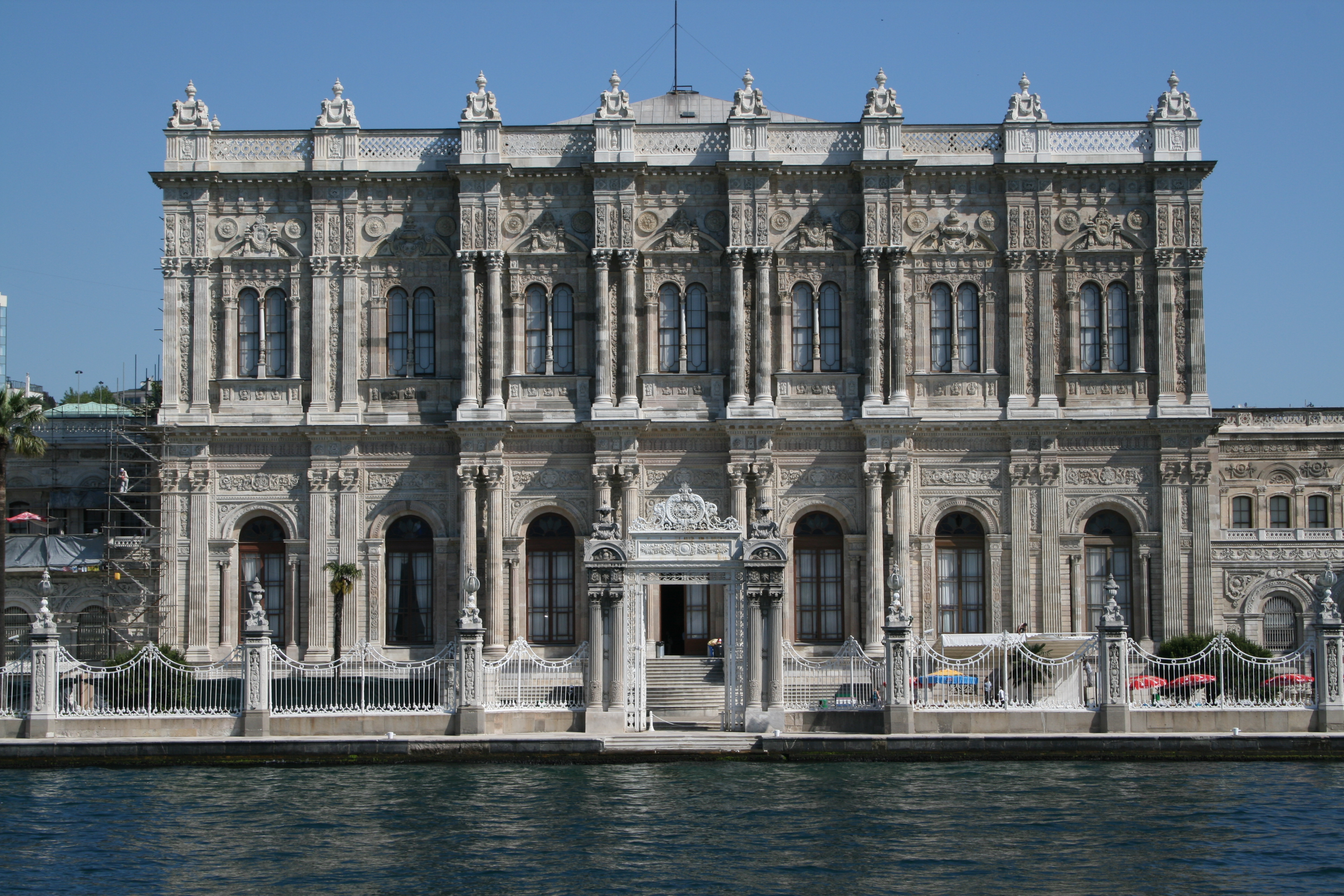 View of Dolmabahçe Palace from the Bosphorus